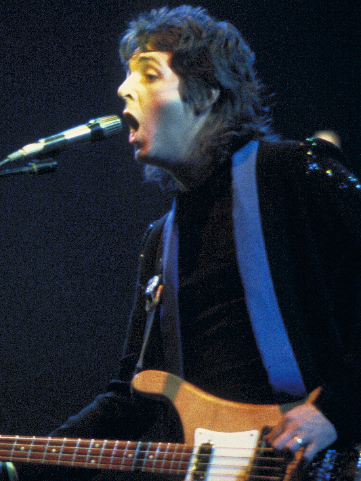 Paul McCartney during a Wings concert.